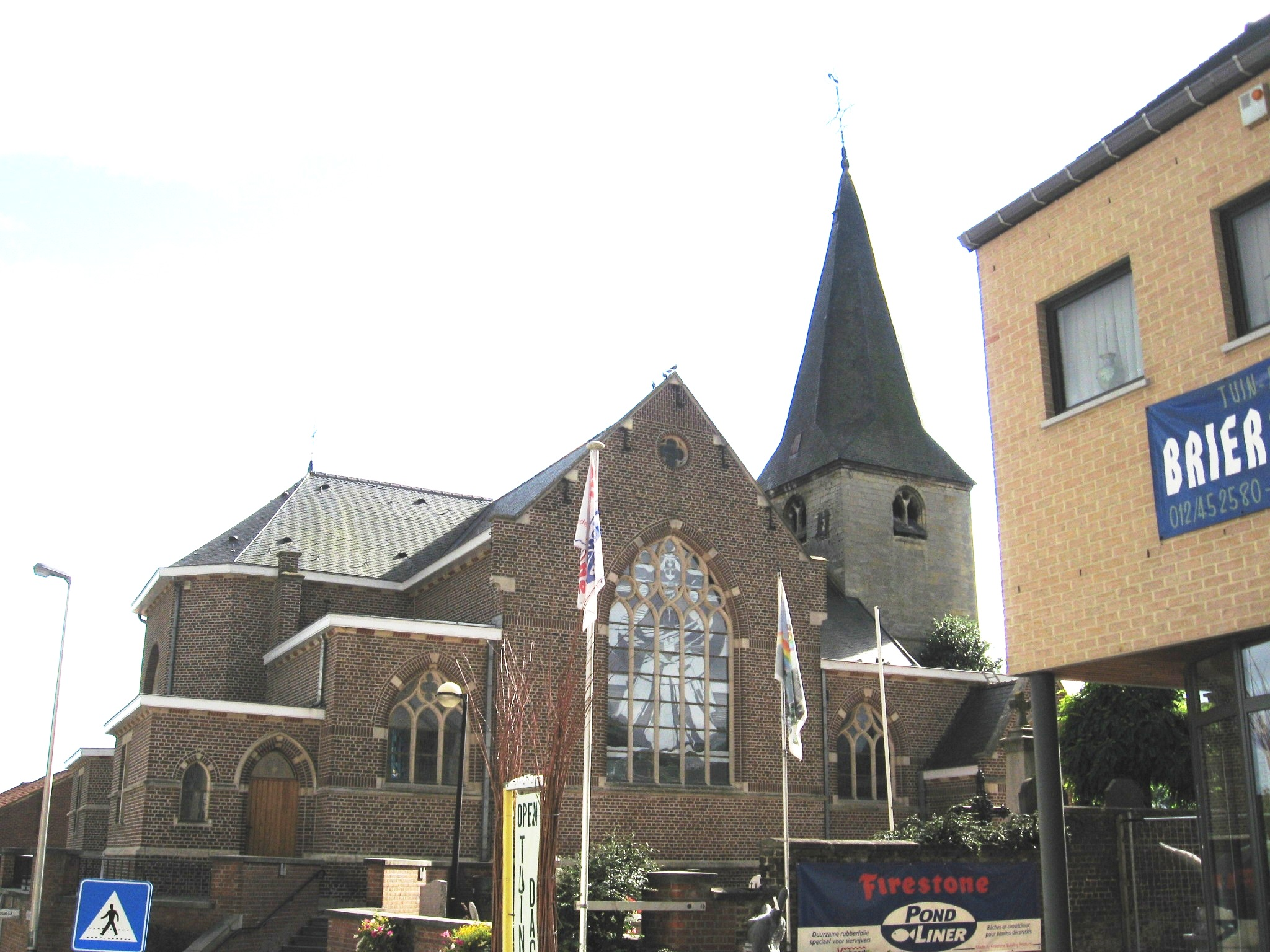 Church of Saint Peter in Rosmeer, Bilzen, Limburg, Belgium